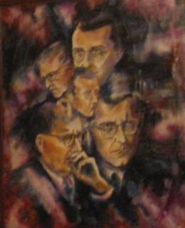 Faces of Shostakovich. Tatyana Apraksina. Oil on canvas, 1986.